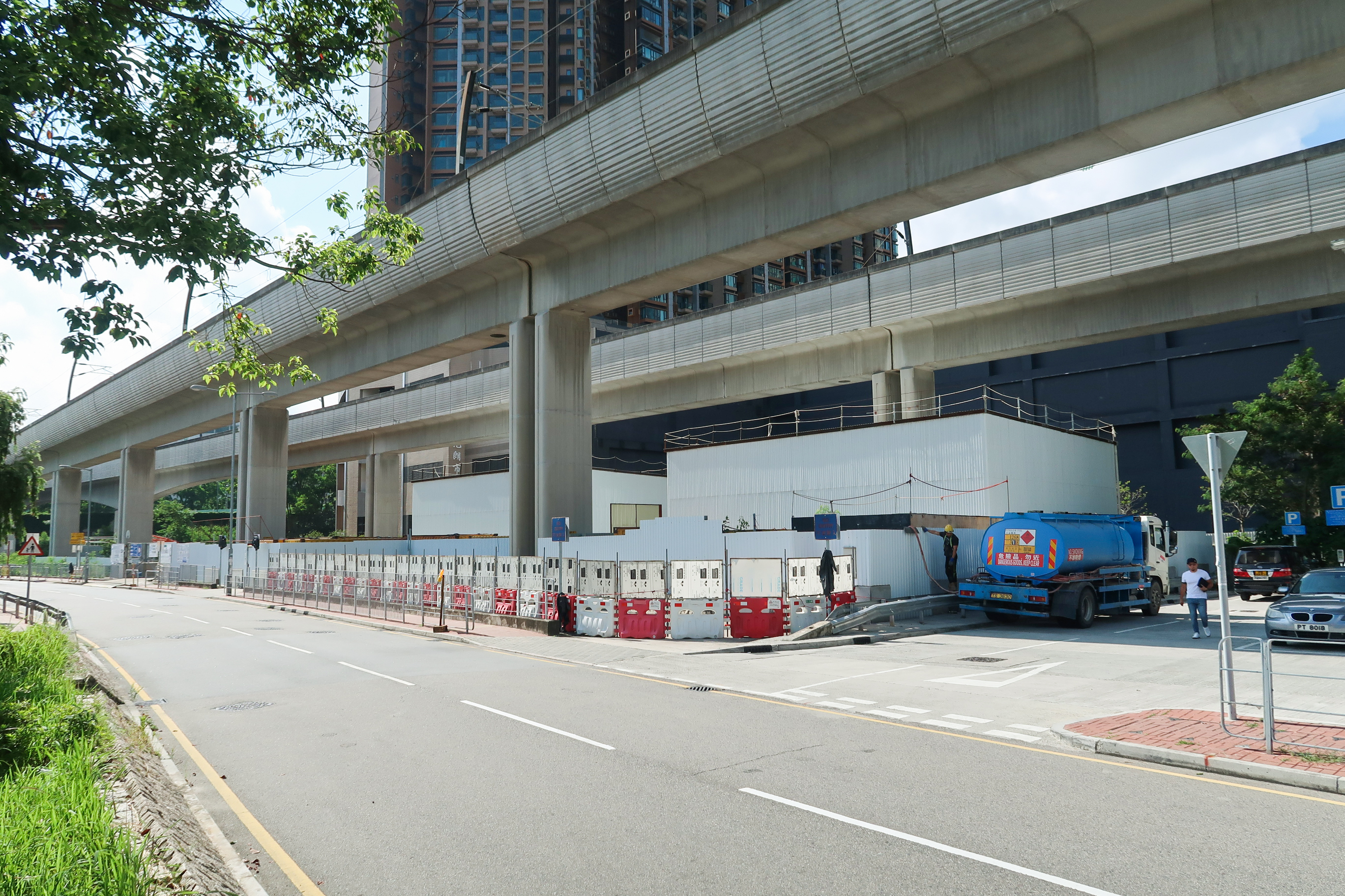 Yuen Long Station Bridge works